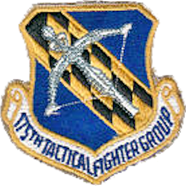 175th Tactical Fighter Group - Emblem.